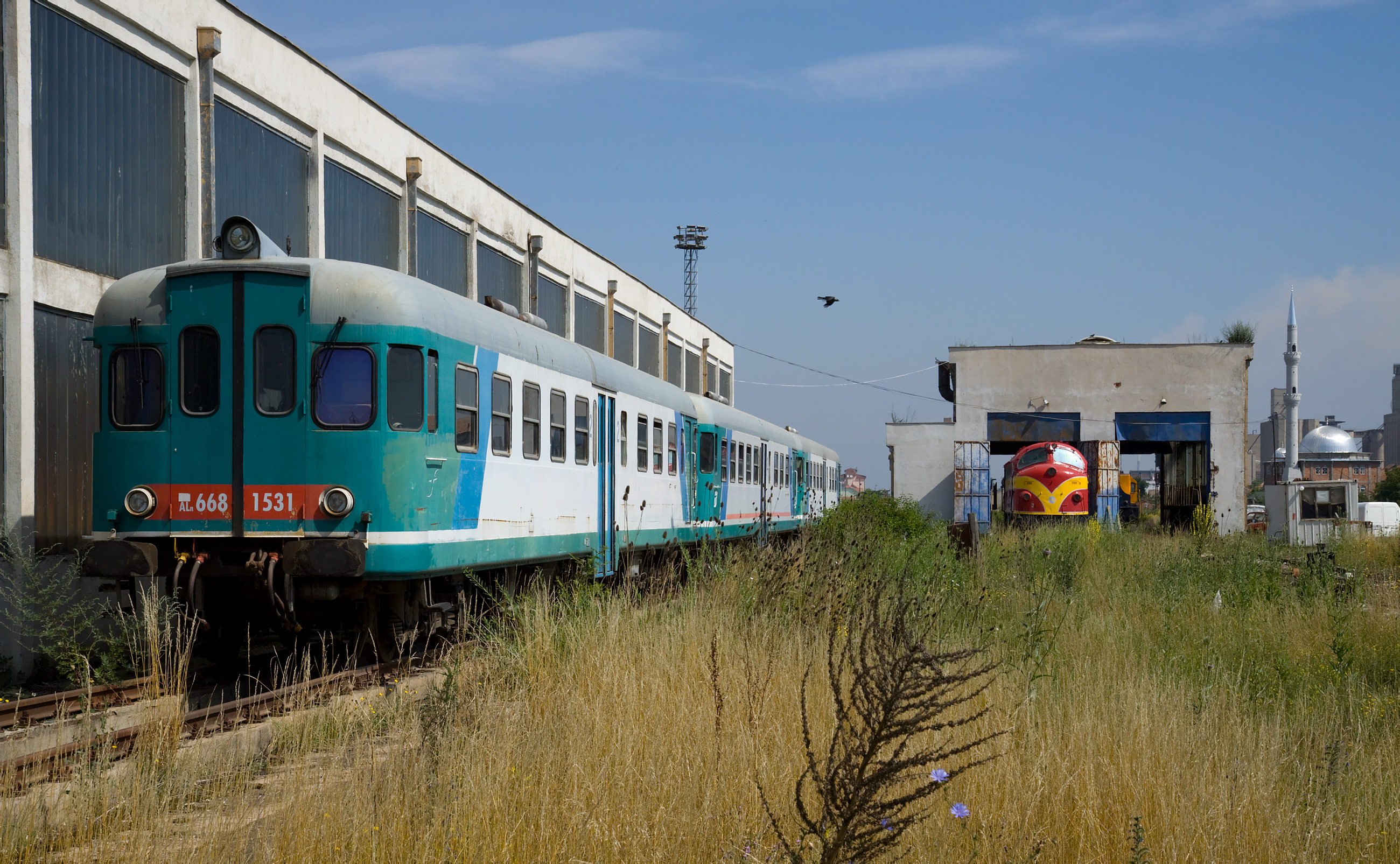 Former FS ALn 668 at Fushë Kosovë. According to Kosovo Railway staff these DMUs are in working condition, but they are not needed currently.